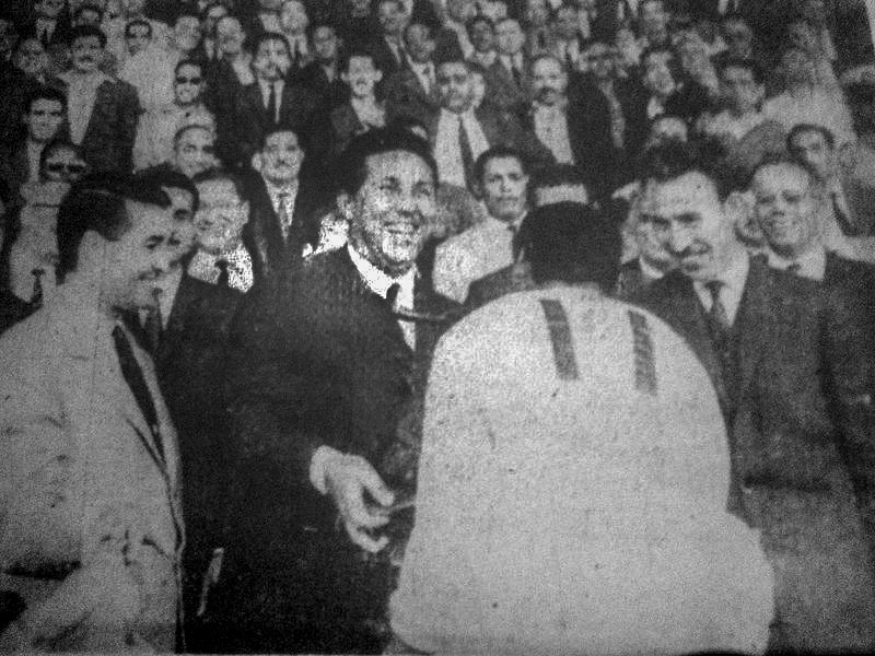 Bentifour, coach of USM Alger teams receives the first algerian championship football trophy (1962-1963) by hand of Ben Bella president of Algeria.